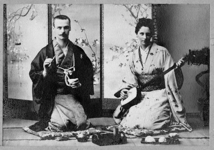 Edouard Chavannes with wife, Alice Dor, on trip to Japan, c. 1891 or 1892